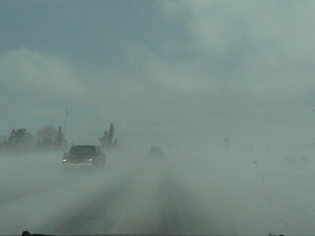 Ground blizzard conditions in Ontario. HWY 26 looking westbound, 5 kilometres outside of the town of Stayner, March 21st 2004.